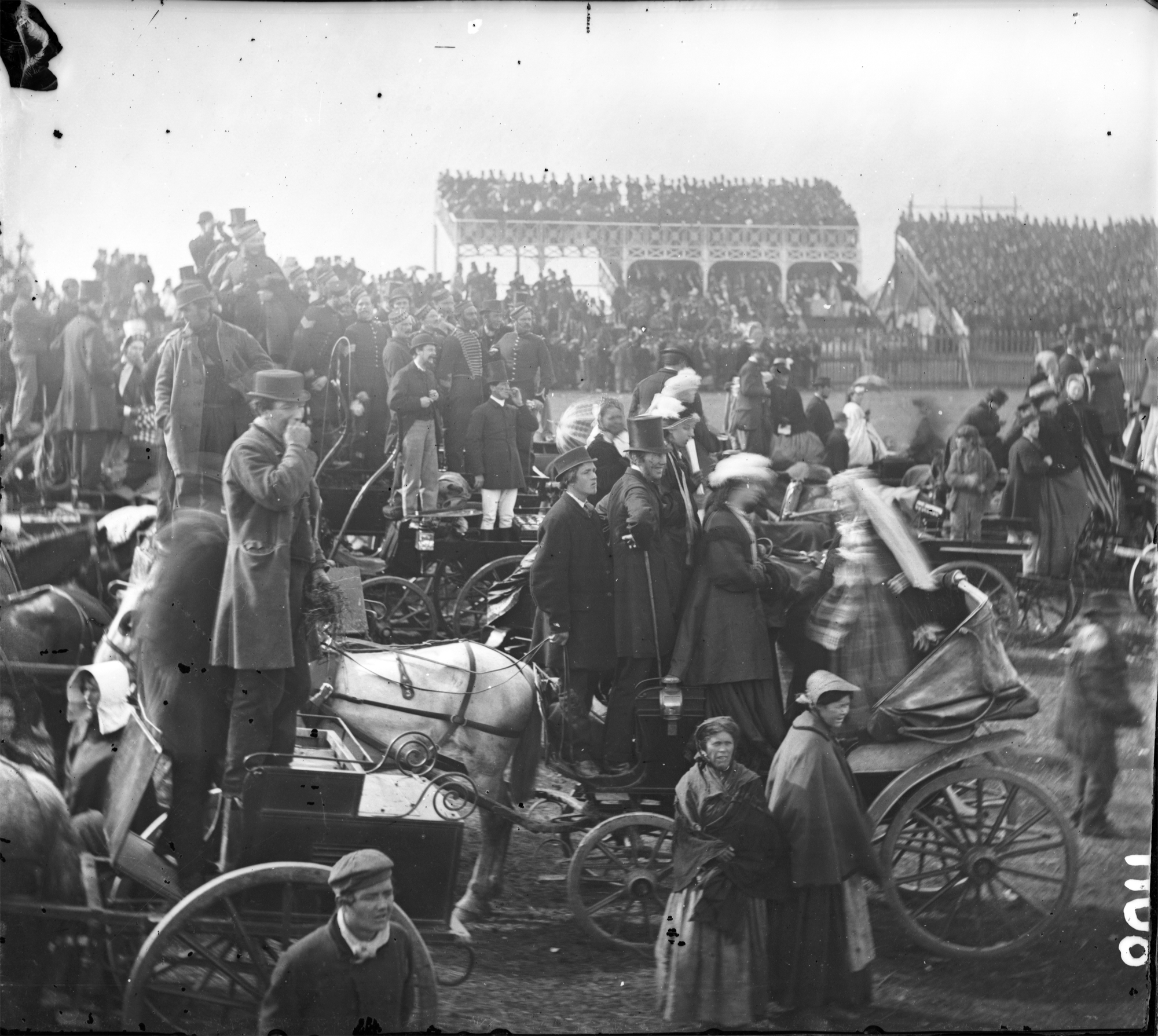 This is almost certainly where our Dandies from Friday were headed, or headed home from (bad grammar, but you know what I mean) - a race meeting at Punchestown - very distinctive stands in the background. Can anyone identify the regiment from the soldiers' uniforms? Date: Circa 1868 NLI Ref.: STP_1108